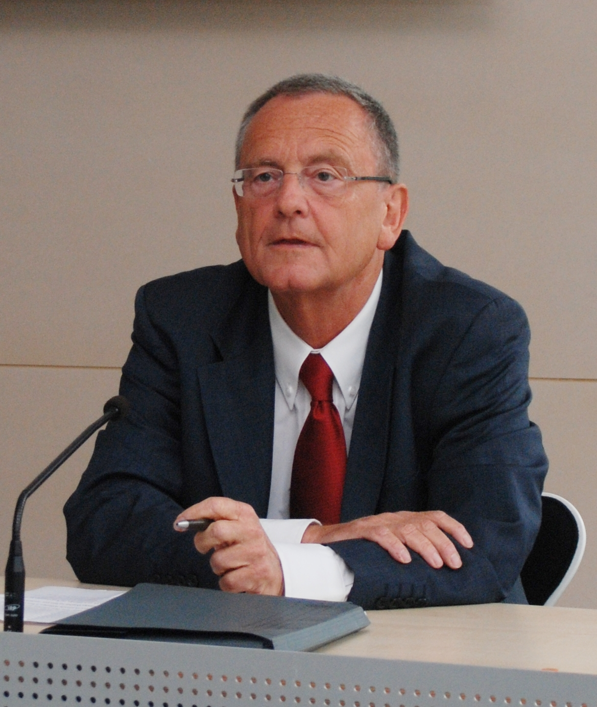 Gerhard Besier, German protestant theologian